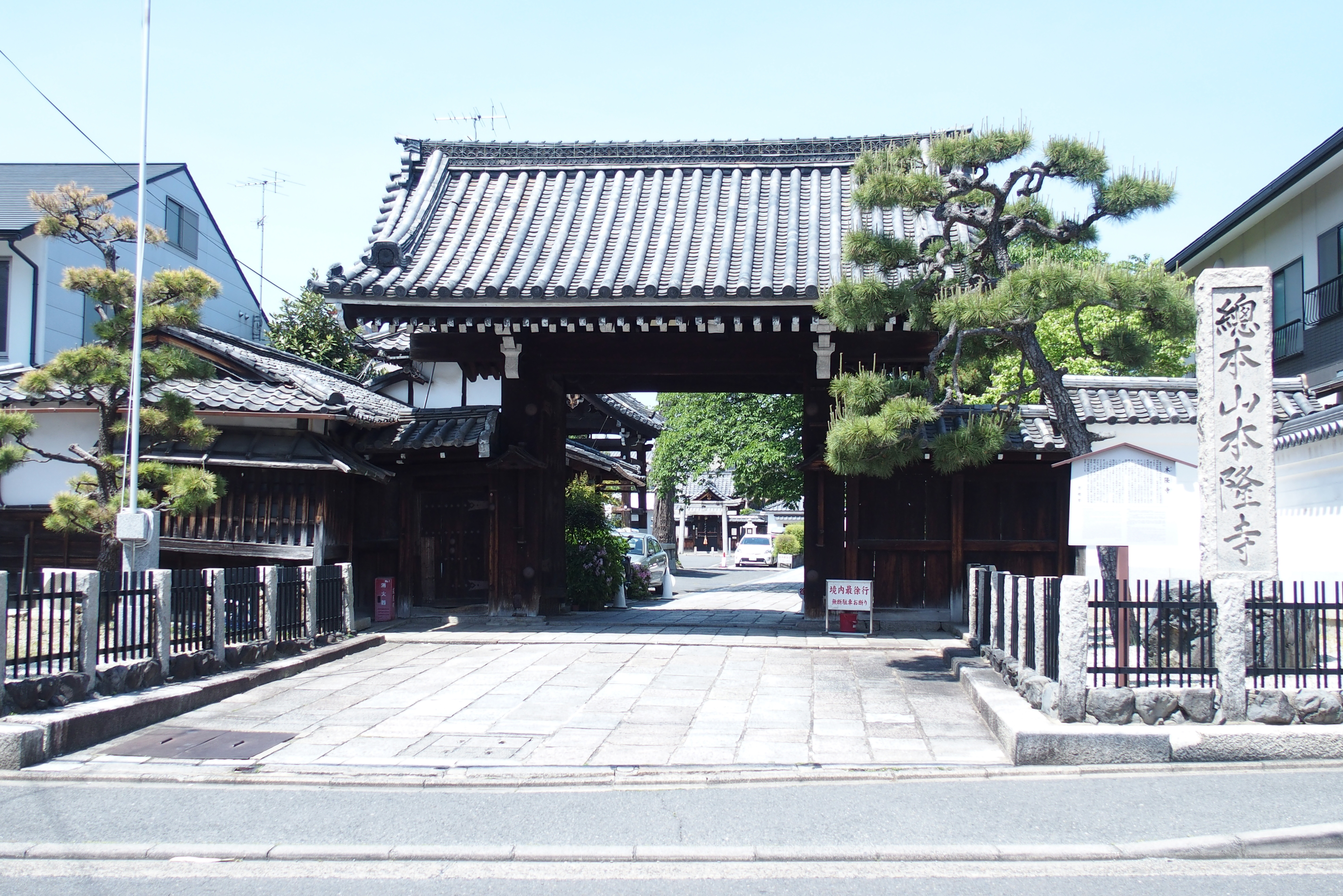 Honryu-ji temple